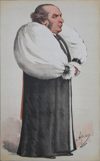 Caricature of William Thomson, Archbishop of York. Caption read "The Archbishop of Society".